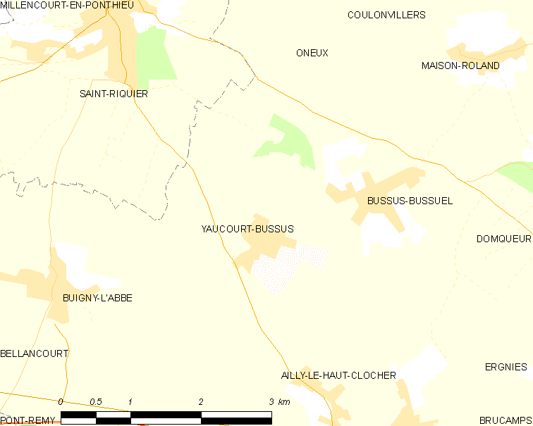 Map of French municipality Yaucourt-Bussus